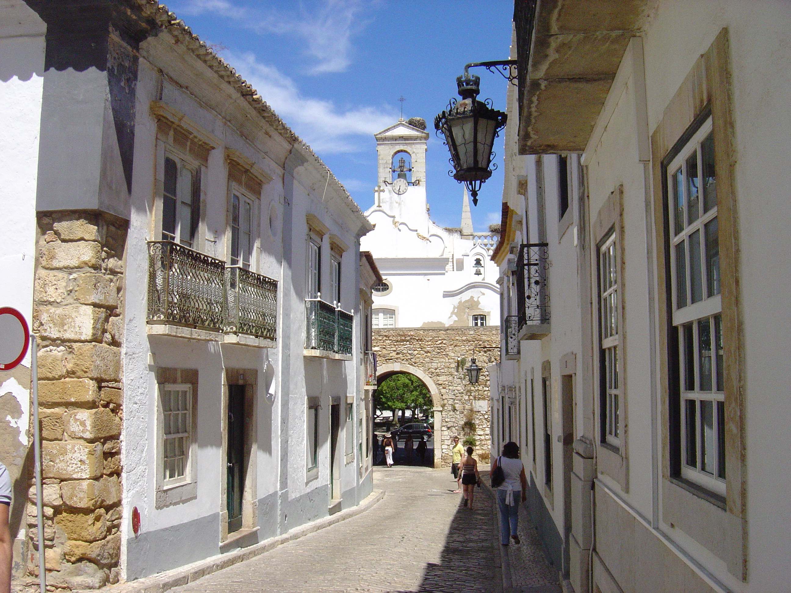 Faro, Portugal